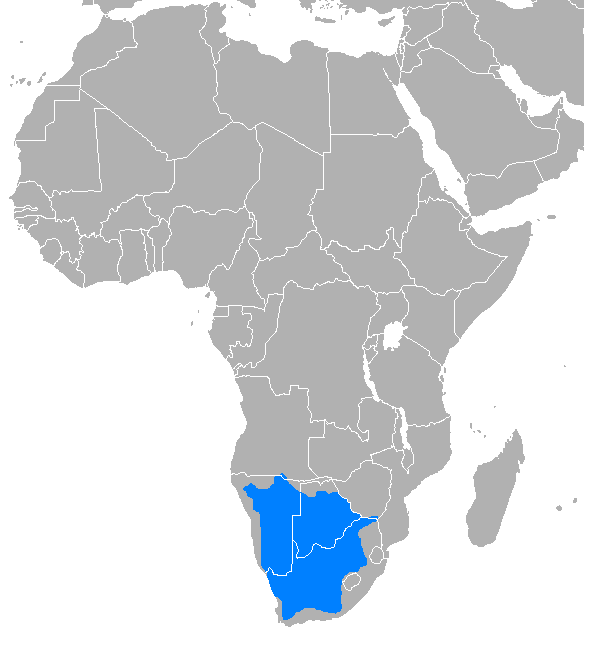 Black-footed Cat (Felis nigripes) range